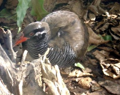 Okinawa Rail (Gallirallus okinawae)